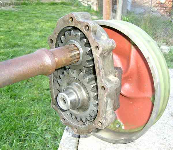 KdF-82, reducing transmission of rear remedy